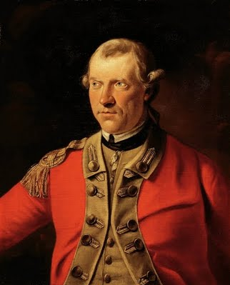 Major-General Henry Gladwin (c.1729-1791), who withstood the siege of Fort Detroit in 1763. By John Hall (1739-1797), Detroit Institute of Arts, Detroit, Michigan, ref. 53.6. Provenance: Gladwin family, purchased 1953 by Detroit Institute of Arts, with funding from Dexter M. Ferry, Jr., from H. Gladwin-Errington, great-great-grandson of sitter.[1]